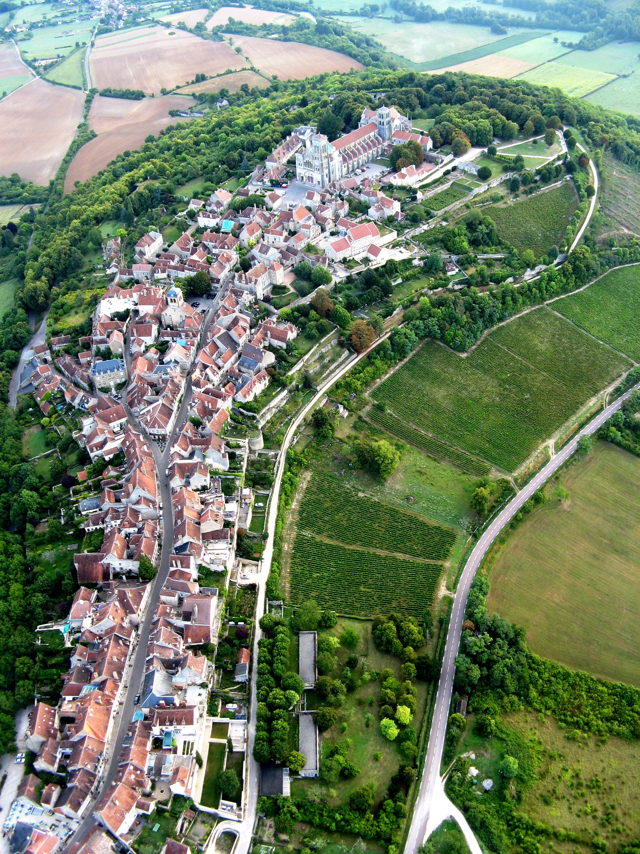 Vezelay